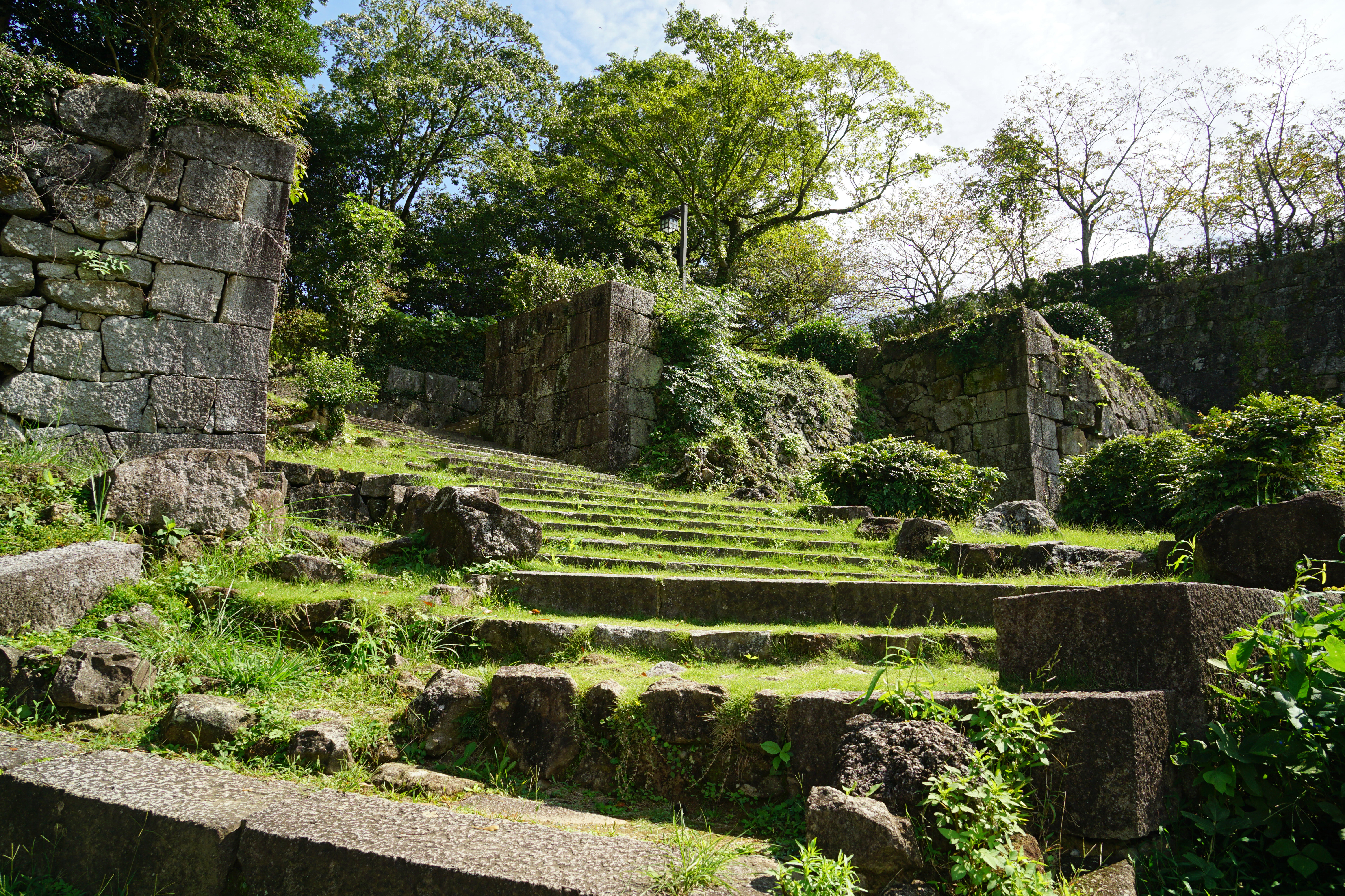 Shingū Castle in Shingū, Wakayama prefecture, Japan